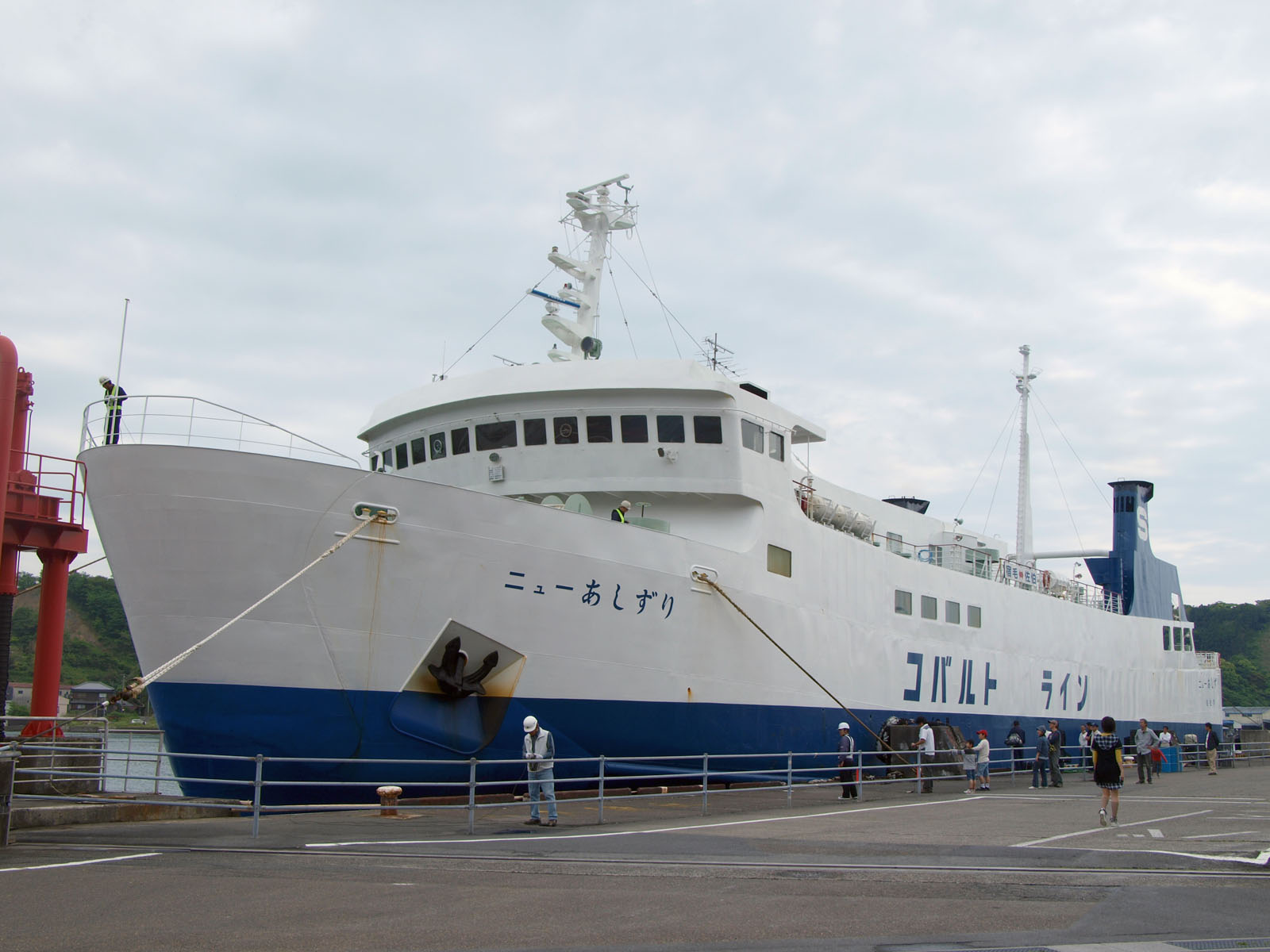 New Ashizuri of Sukumo Ferry at Sukumowan Port